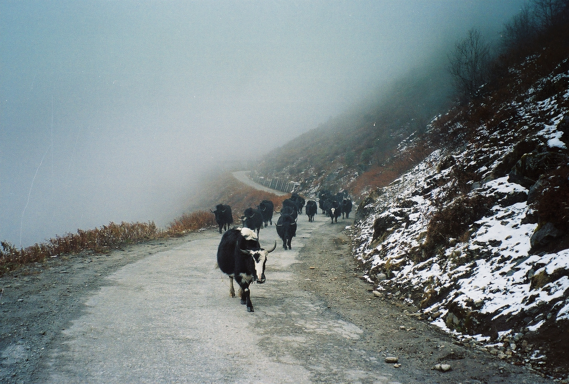 A herd of wild yaks at high altitude in Himalayas